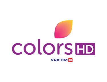 Colors TV channel in India at 2017.